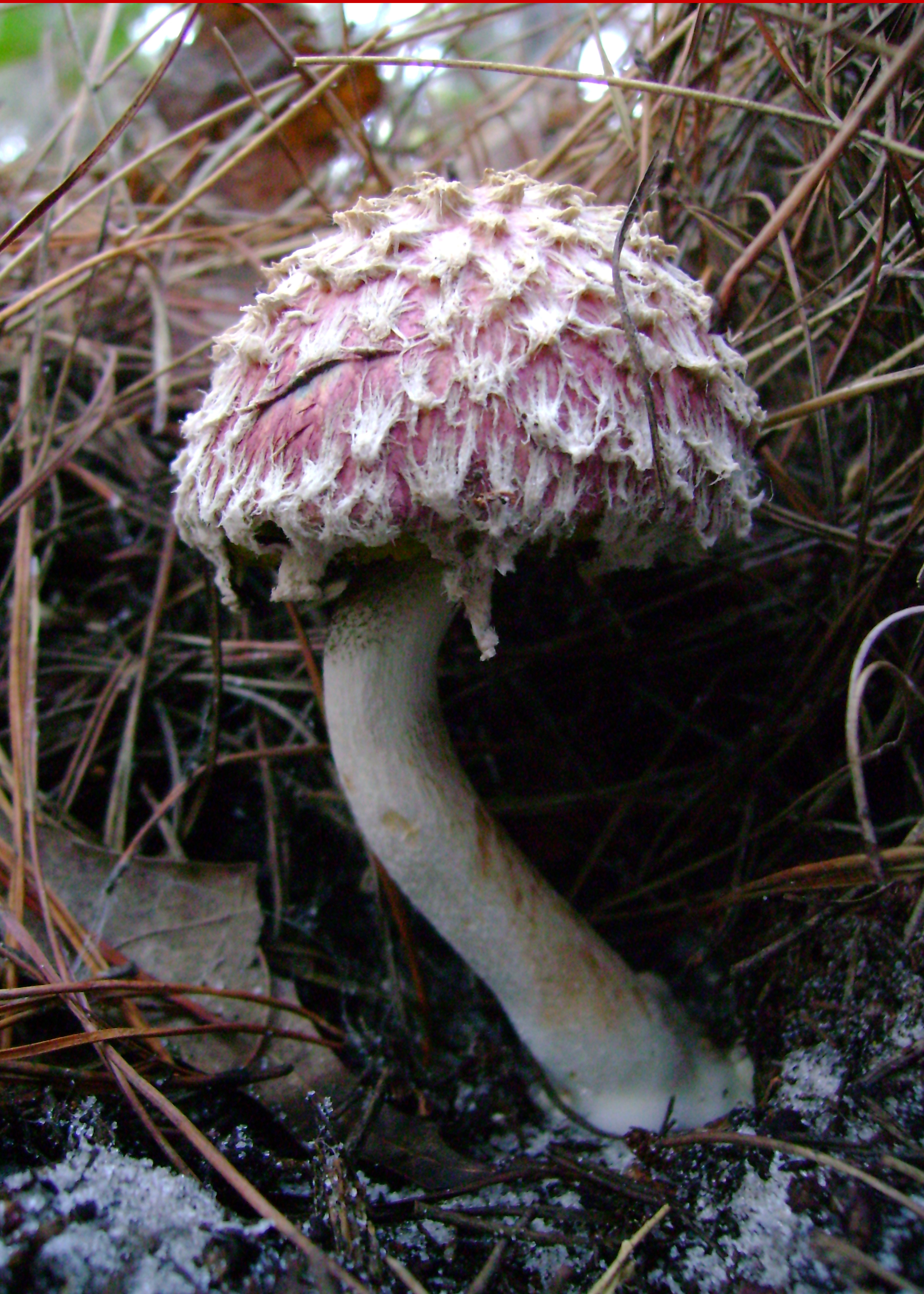 The fruit body of the fungus Boletellus ananas (M.A. Curtis) Murrill. Specimen photographed in New Port Richey, Pasco Co., Florida, USA.